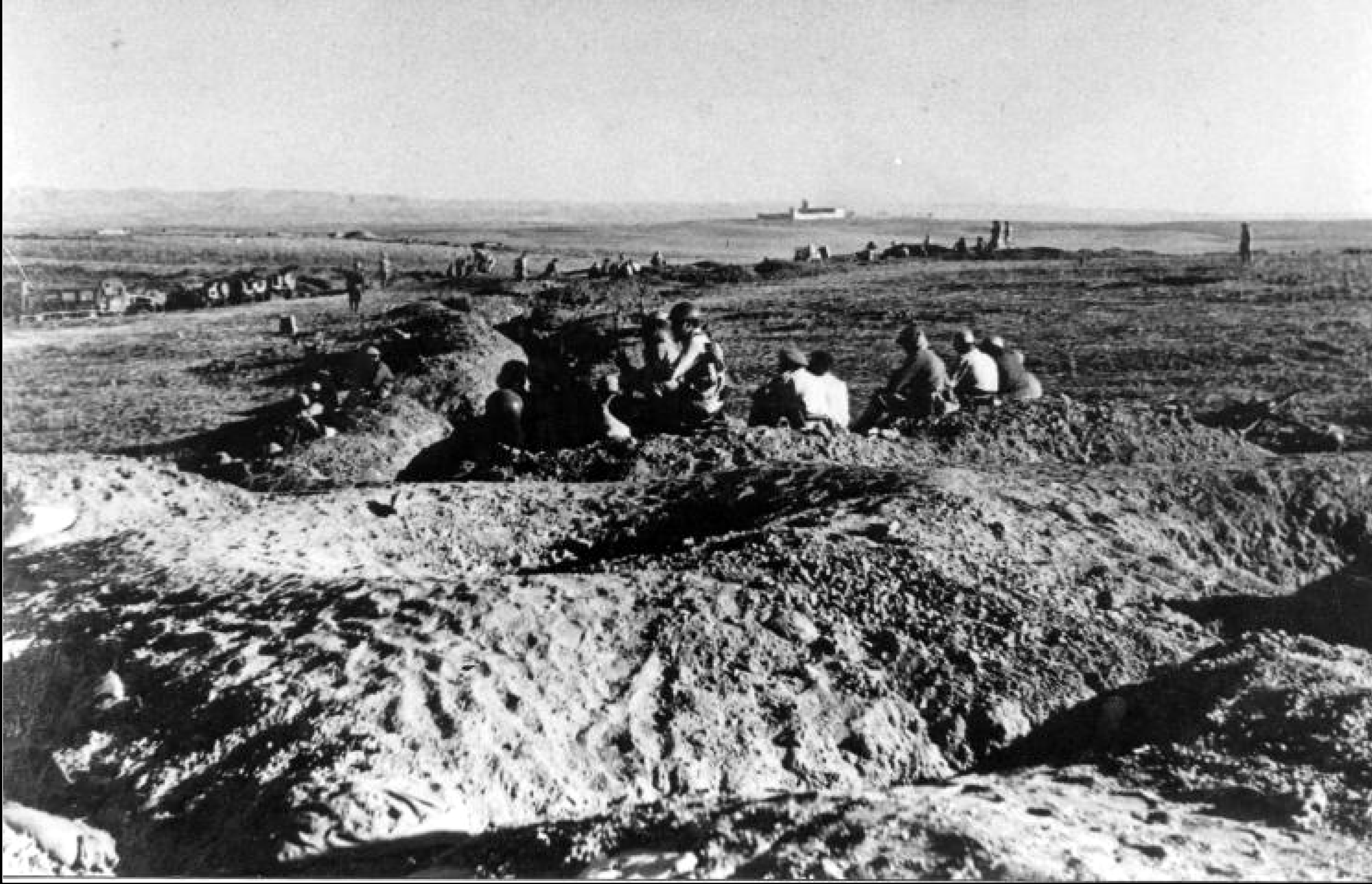 The Ninth Battalion of the Armoured Brigade with Iraq Suwaydan in the distance, November 1948.